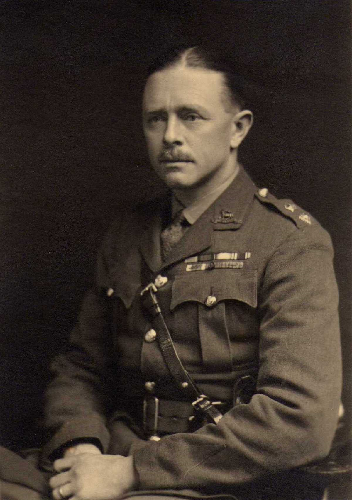 Photograph of George James Giffard when he was Lt-Col.